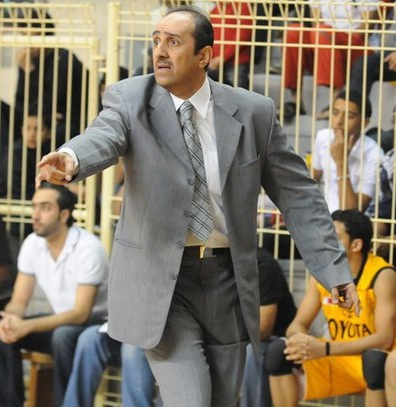 Faisal Buressli Head Coach of Al Ahli Bahraini Club